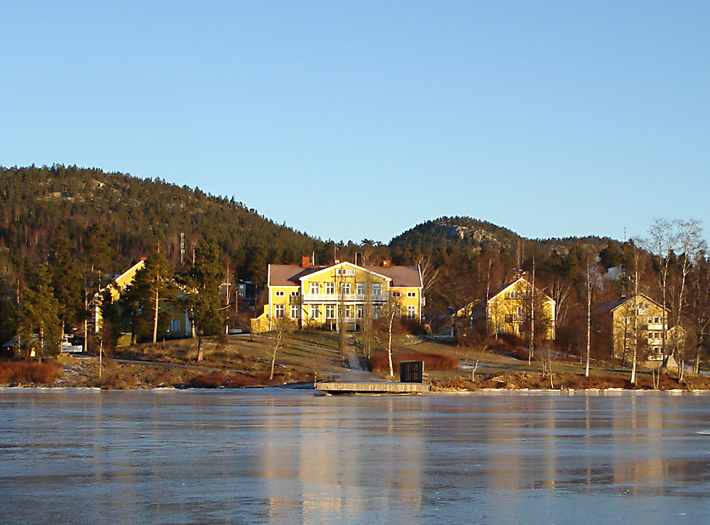 Former Hampnäs folk high school by lake Själevadsfjärden, Örnsköldsviks Municipality, Sweden. The folk high school has moved to Örnsköldsvik while the buildings here are now used by a secondary school. If the photo is used outside of the Wikipedia project, it should be labelled "Photo: Gudrun Norstedt", or the equivalent text in the relevant language.